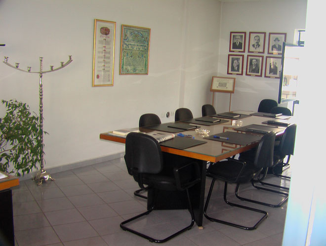 Larissa_jewish_community_office. Credit:Courtesy of Arie Darzi to memorialize the Jewish community in Greece.